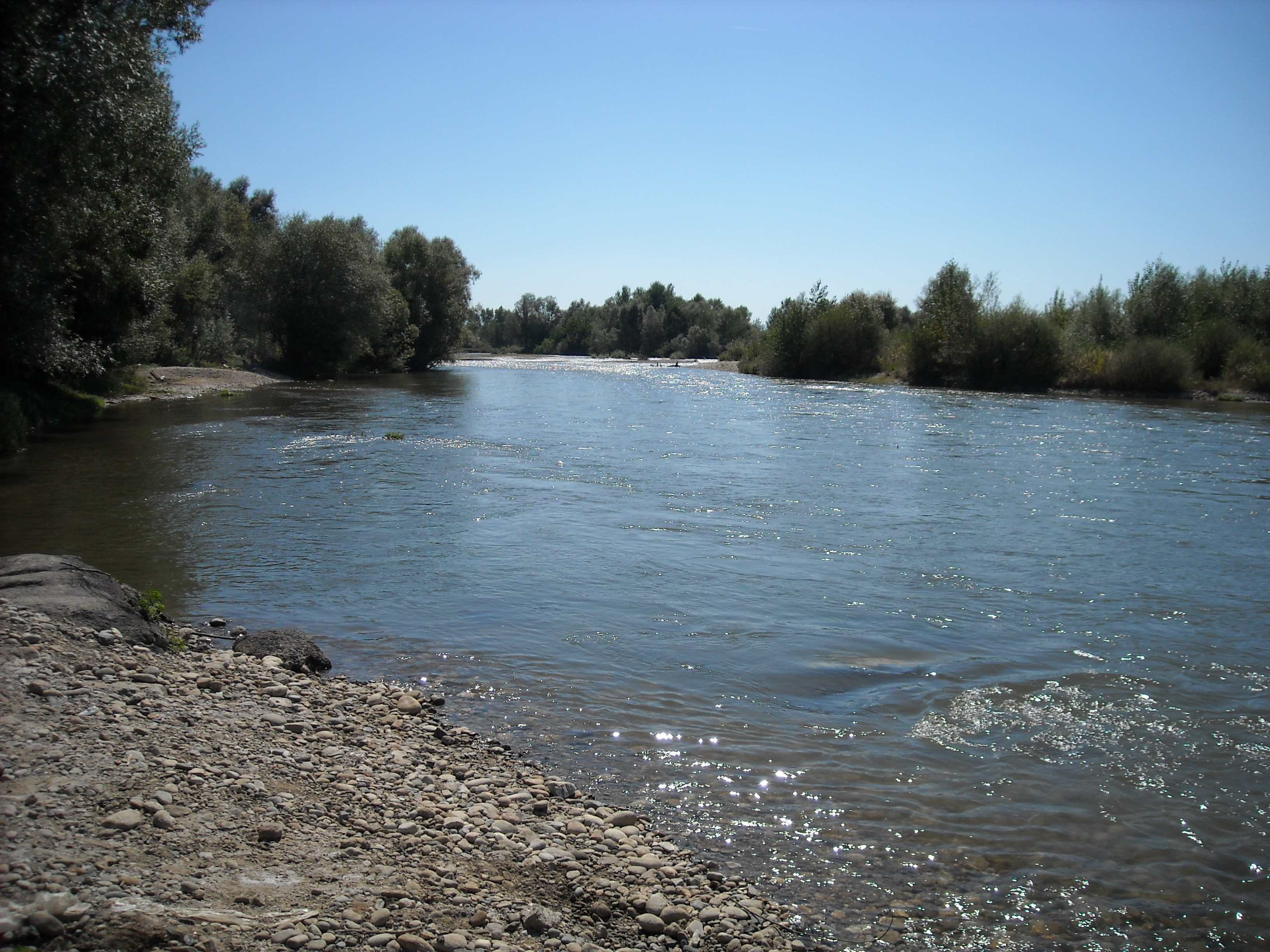 the Strei river at Simeria Veche